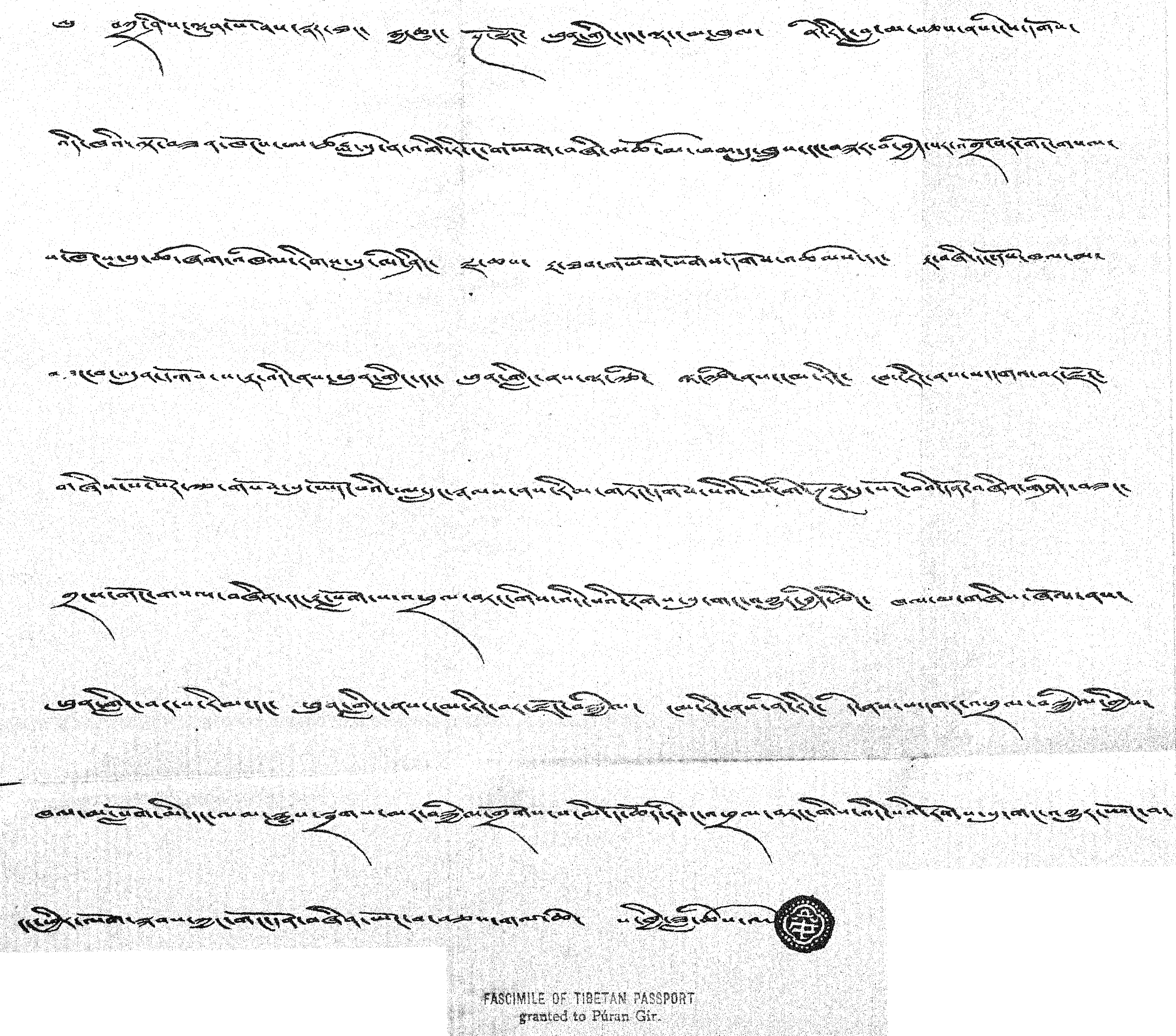 Facsimile of a Tibetan passport(lam-yig) issued by 6th Panchen Lama from Tashilhunpo Monastery to Puran Gir in 1778 A.D.